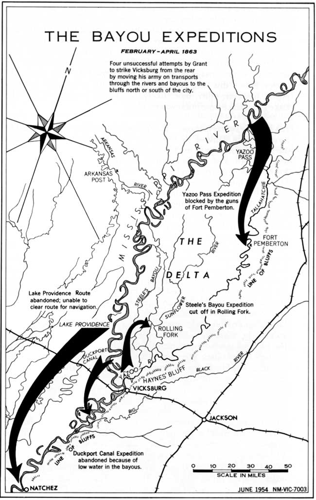 The Bayou Expeditions February - April 1863